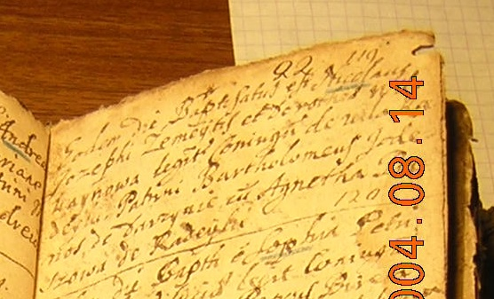 First mention of Radeikiai (Radeyki) village